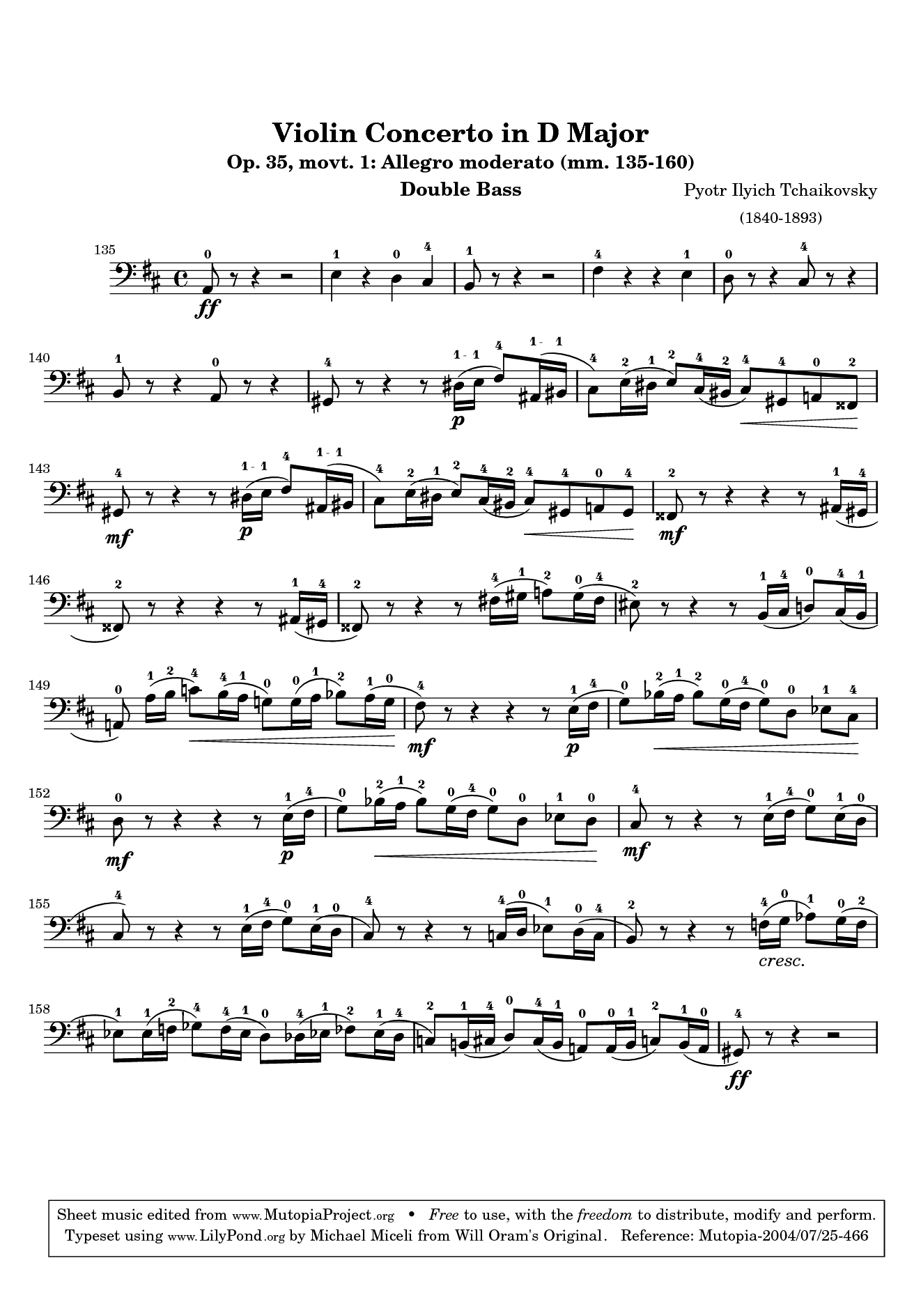 Illustration on typical bass fingers. Excerpt from Tchaikovsky's Violin Concerto, Op. 35.